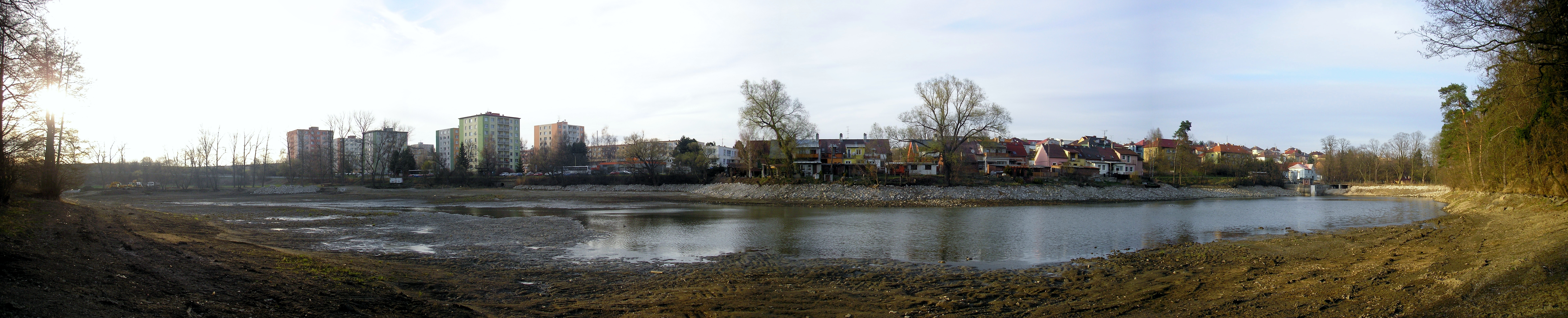 Panorama of Borovinský rybník during its reconstruction